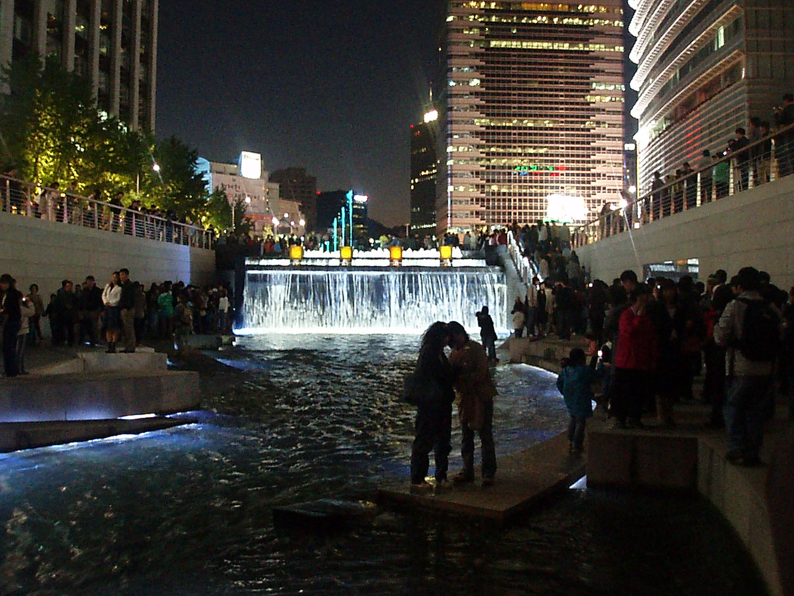 Night view of Cheonggye Plaza. Starting point of Cheonggye stream.